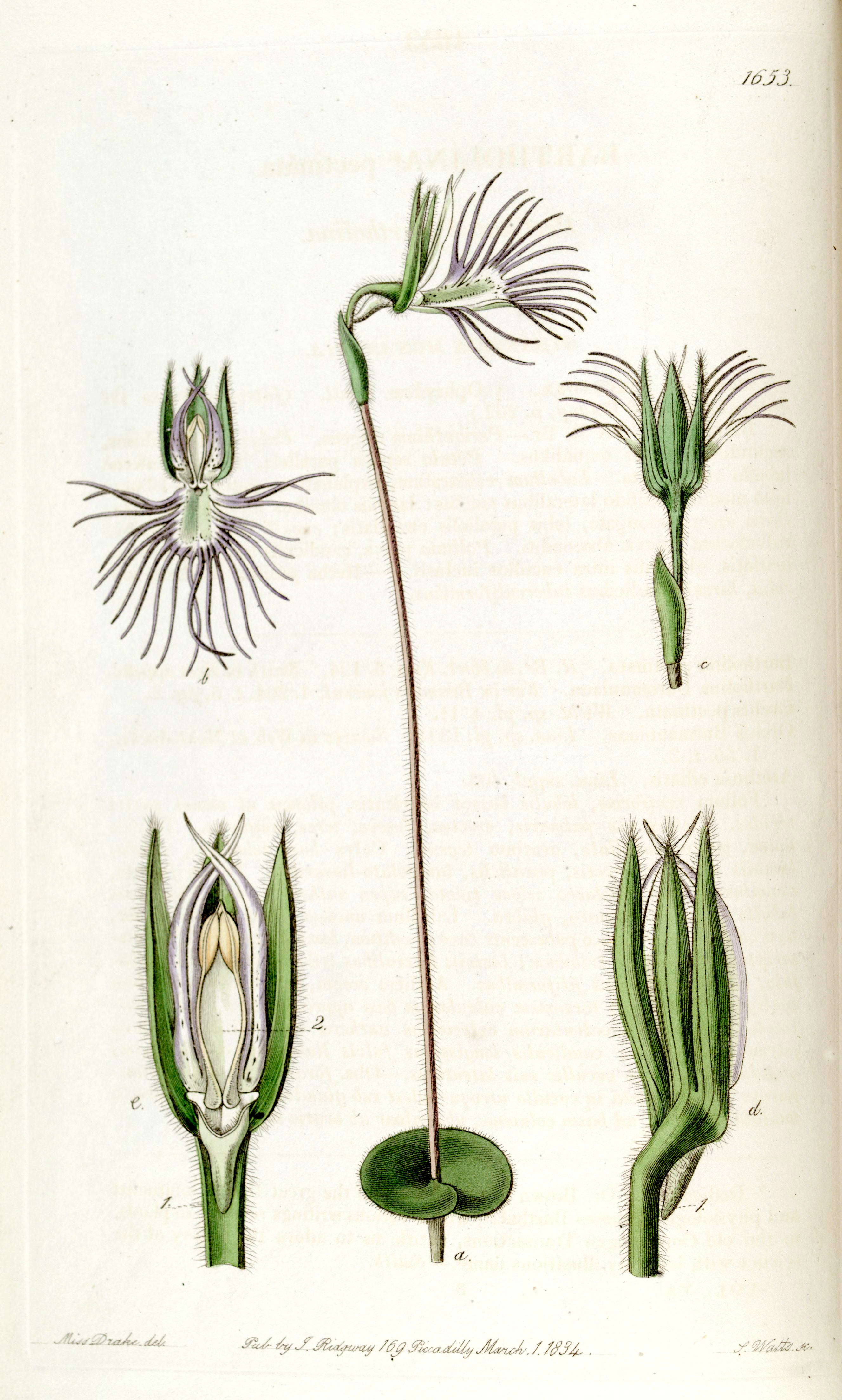 Bartholina burmanniana (as syn. Bartholina pectinata)